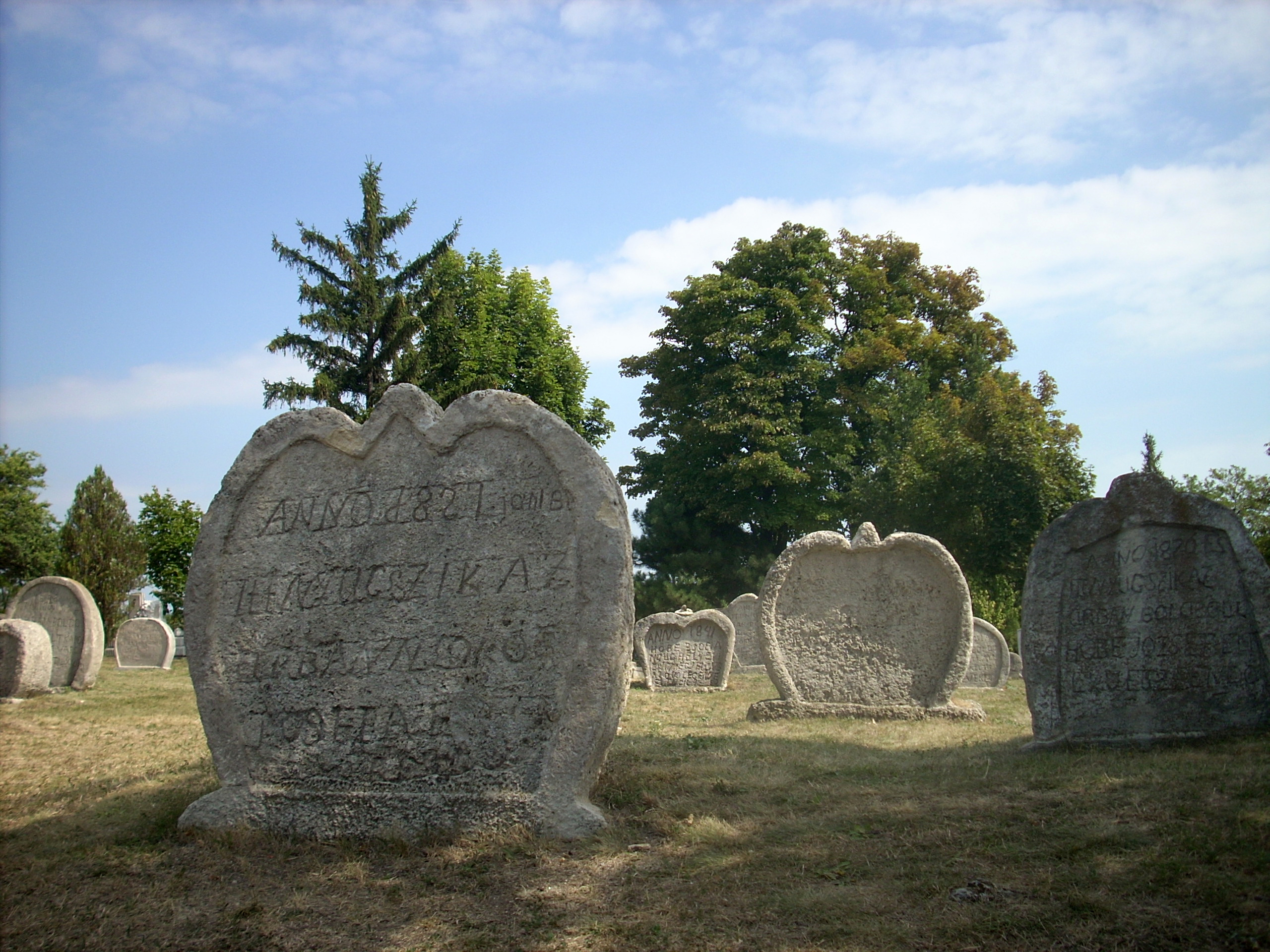 Famous graveyard in Balatonudvari where heart-shaped tombstones can be found. (Hungary)